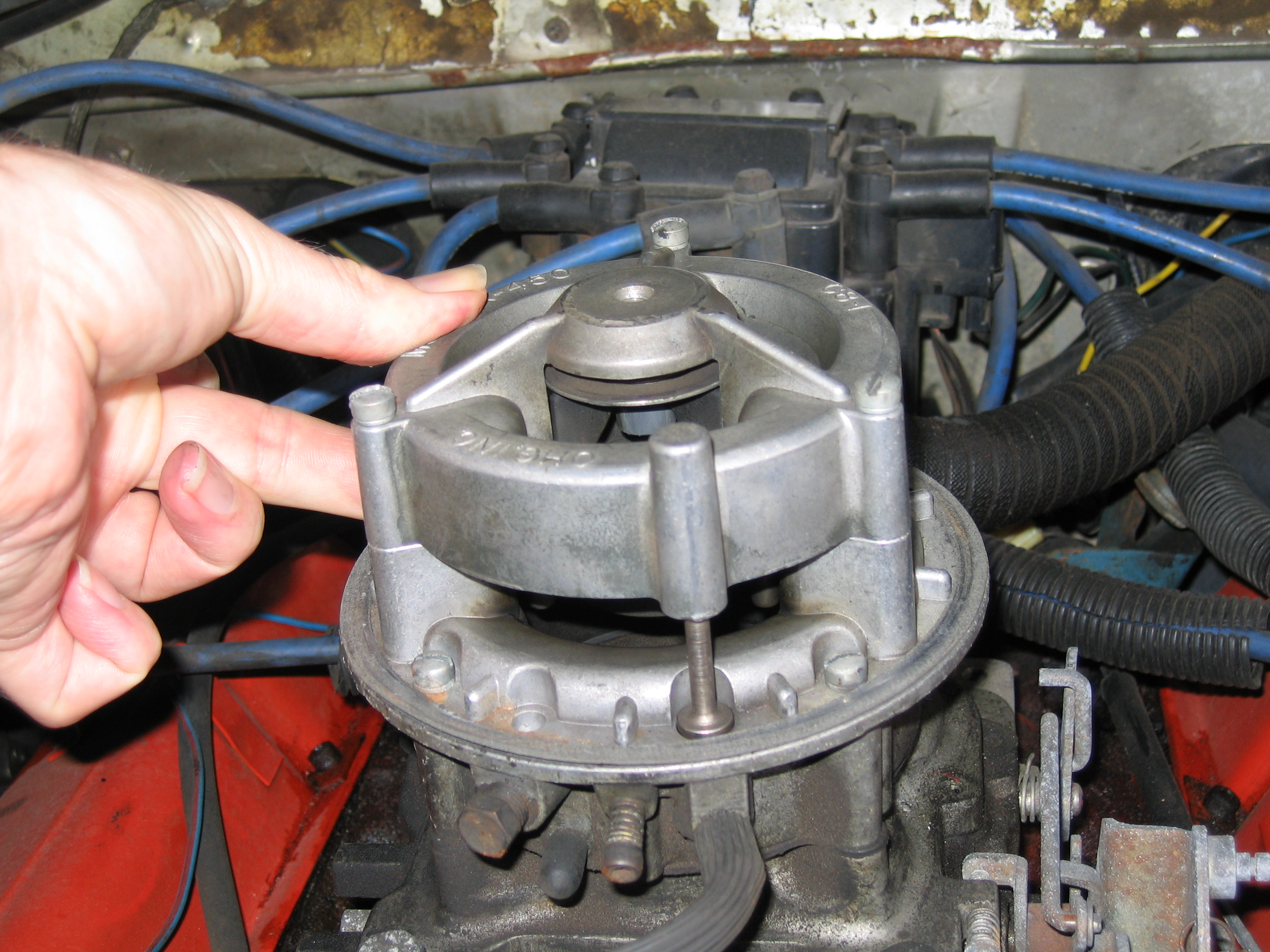 Autogas OHG X-450 mixer with air valve open